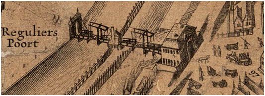 Detail from the third print of Balthasar Florisz. van Berckenrode's map of Amsterdam, originally published in 1625.